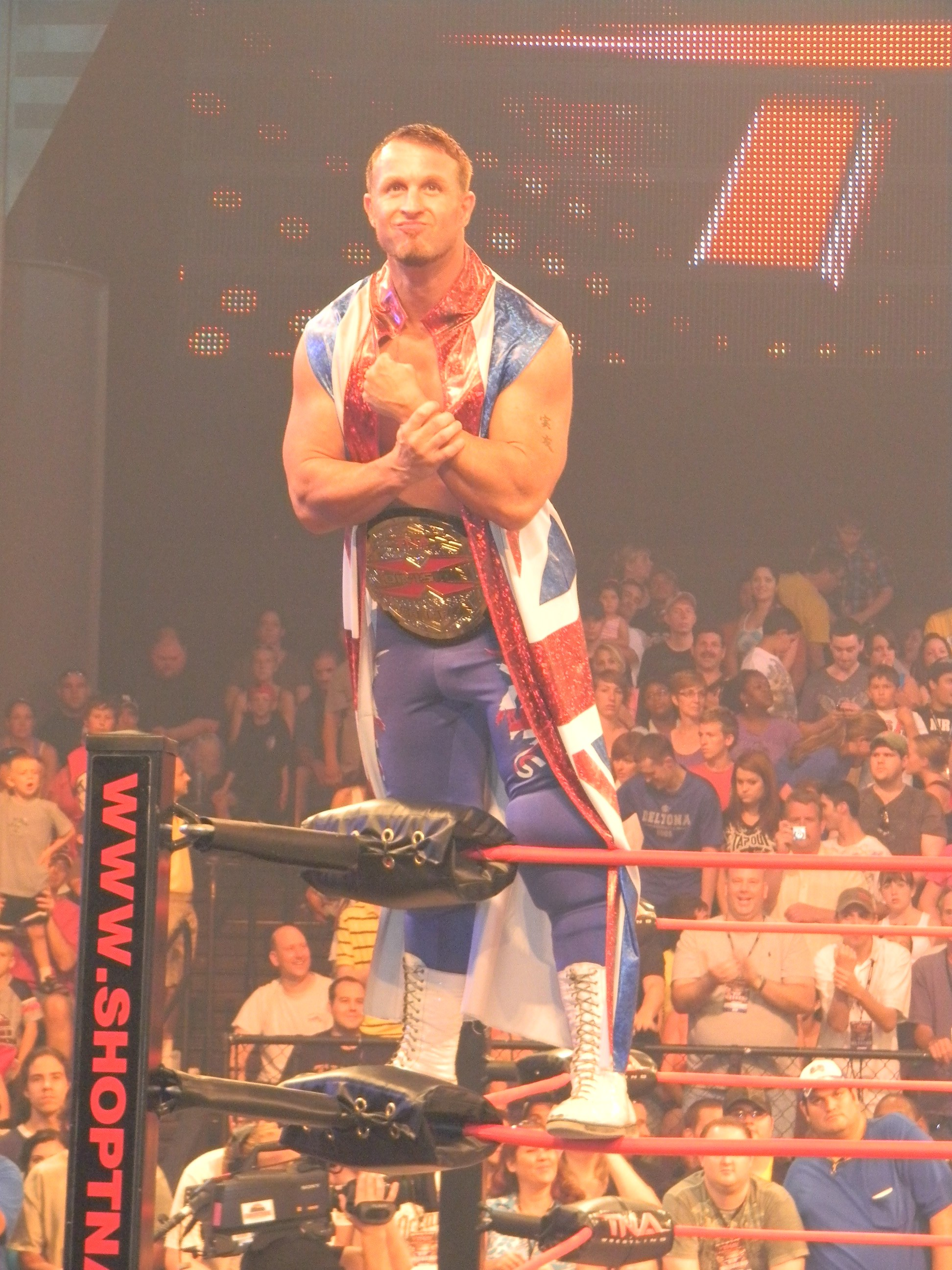 Douglas Williams poses for the cameras while wearing the X Division Title before an "I Quit" match against Brian Kendrick at a recent Impact taping.